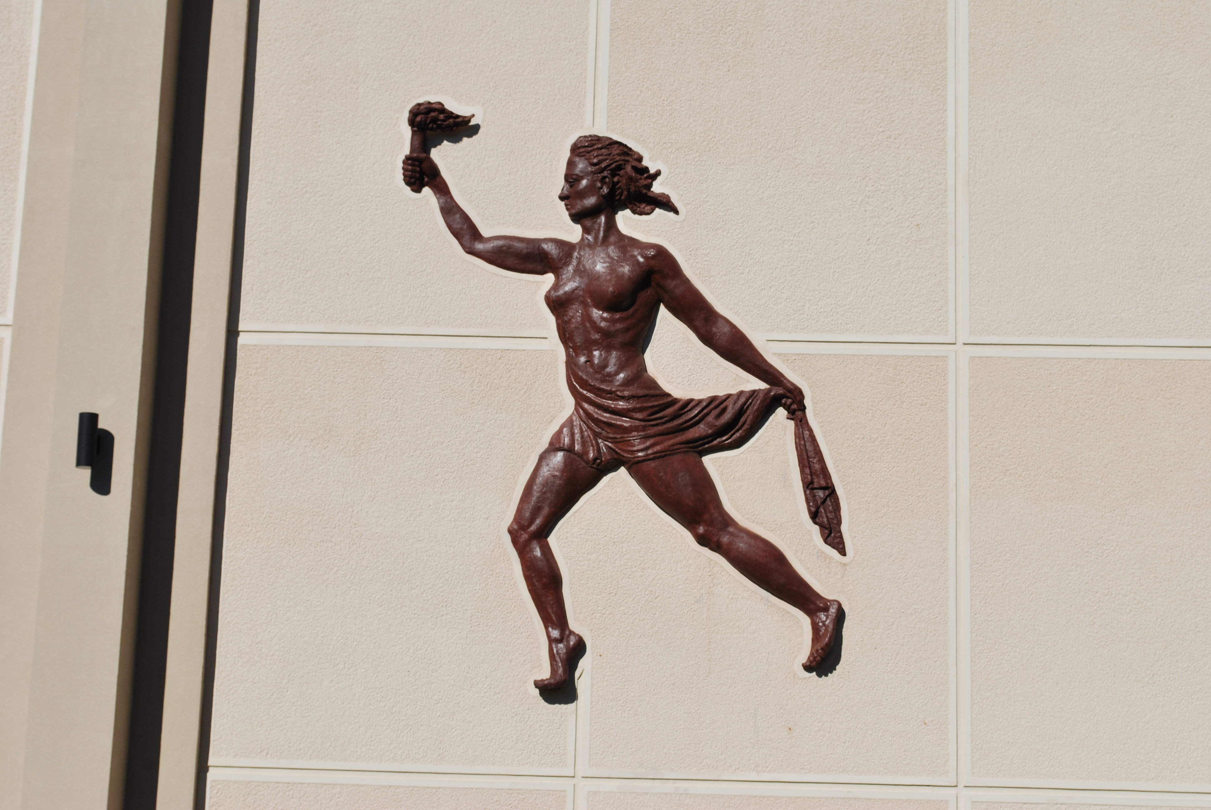 Gevgelija, Macedonia